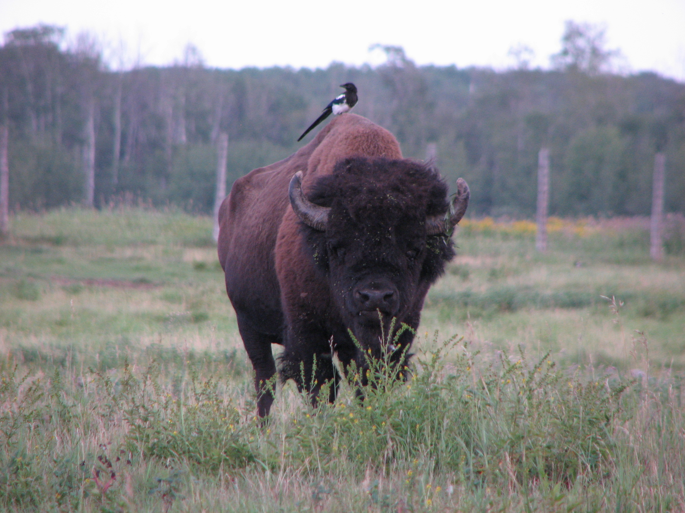 Black-billed Magpie (Pica hudsonia) sitting on a Plain Bison Bull (Bison bison bison), Elk Island National Park, Canada.